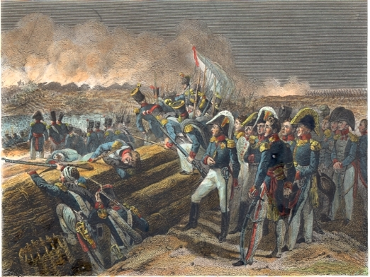 The French siege in the Battle of Trocadero (1823-08-31)